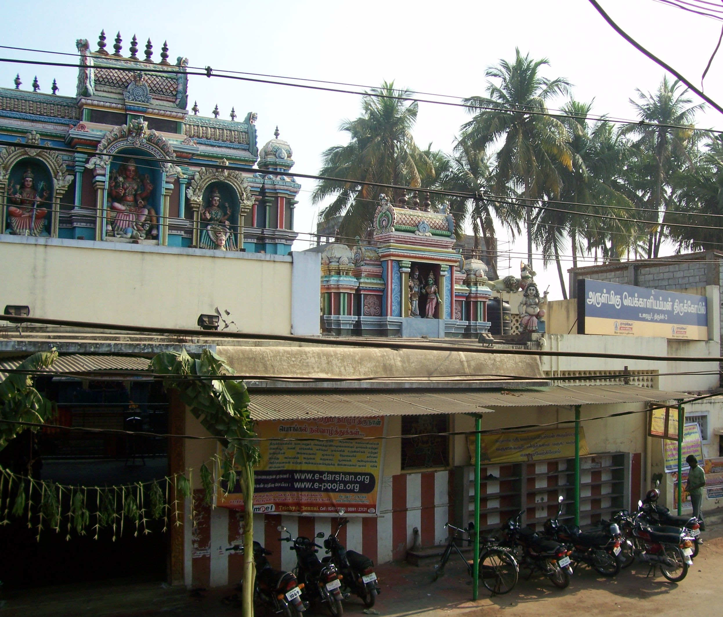 The South Entrance of the Vekkali Amman Temple, Woraiyur, Tiruchirappalli